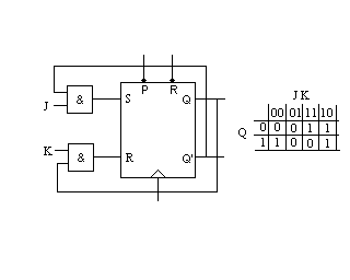 JK-type Flip-Flop